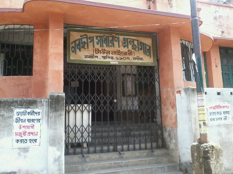 nabadwip sadharon gronthagar